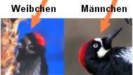 self-made: Cut from: Bild:Melanerpes formicivorus NBII.jpg und Bild:377651313 5cdc061f3d o.jpg